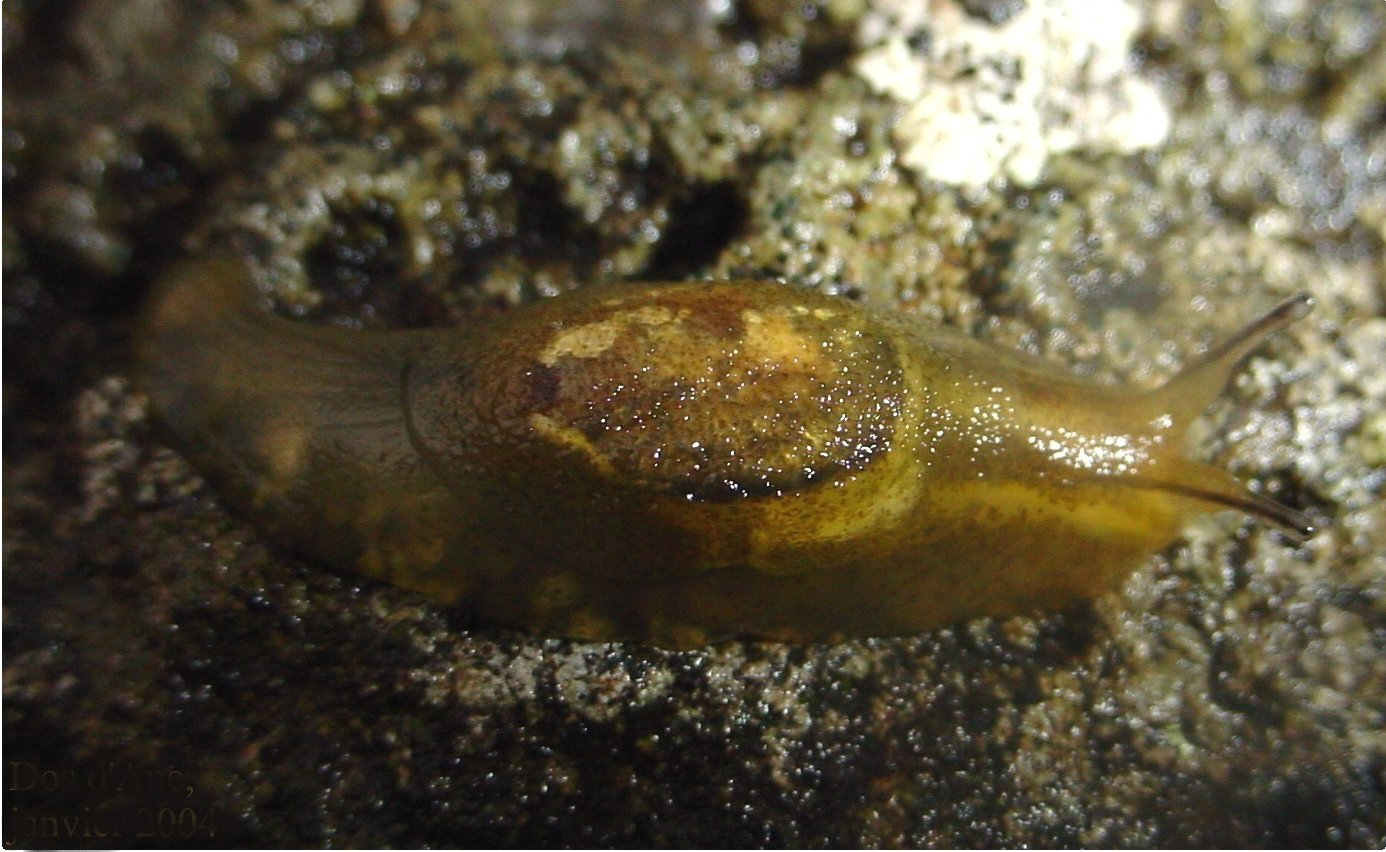 Endemic slug (Hyalimax maillardi), Dos d'Âne, Réunion Island